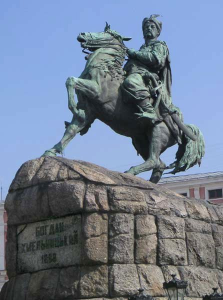 The statue of Bohdan Khmelnytsky in front of the Saint Sophia Cathedral in Kiev, Ukraine.